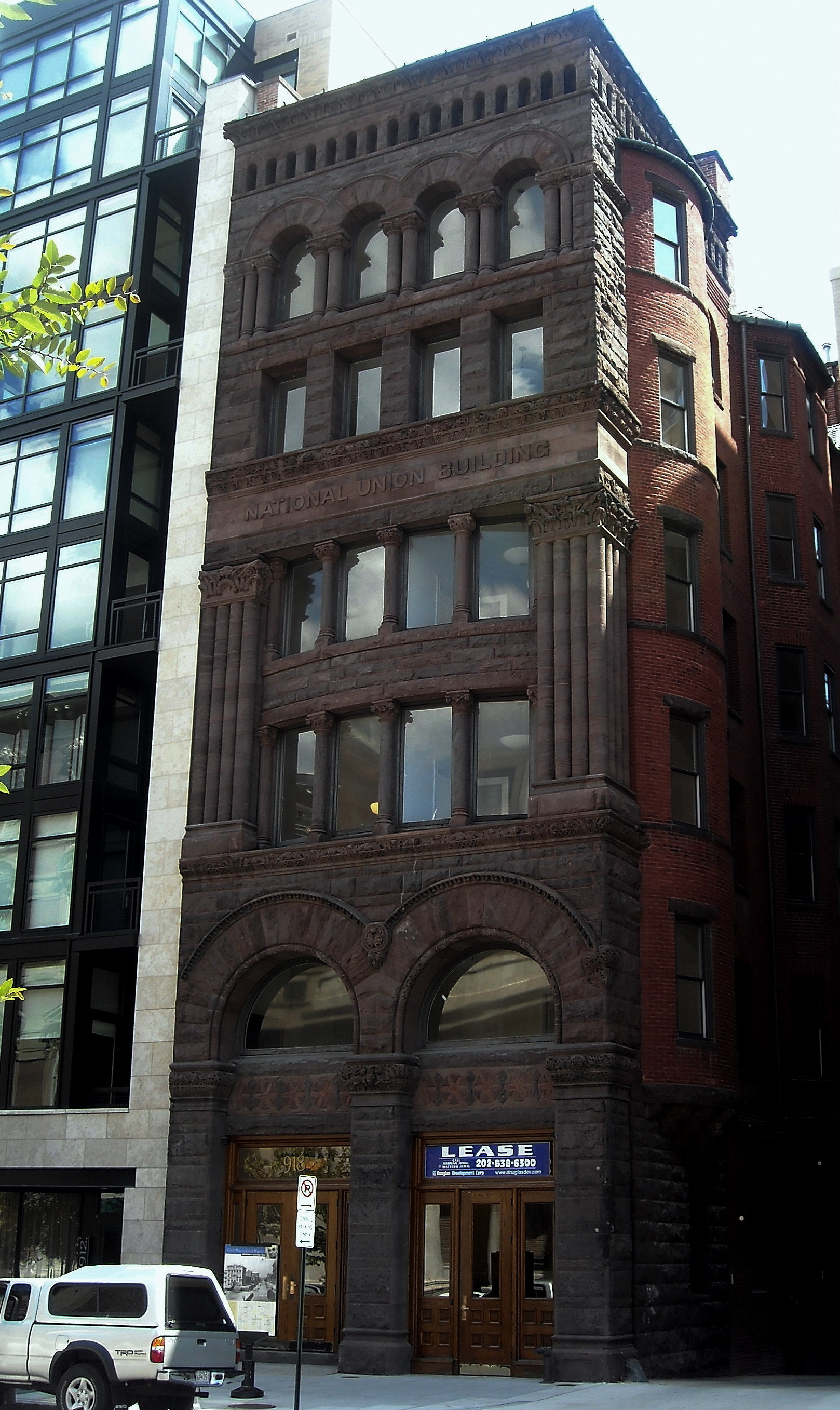 The National Union Building located at 918 F Street, NW in the Penn Quarter neighborhood of Washington, D.C. Designed by Glenn Brown in 1890, the office building is an example of Romanesque architecture. It's listed on the National Register of Historic Places and is a contributing property to the Downtown Historic District.